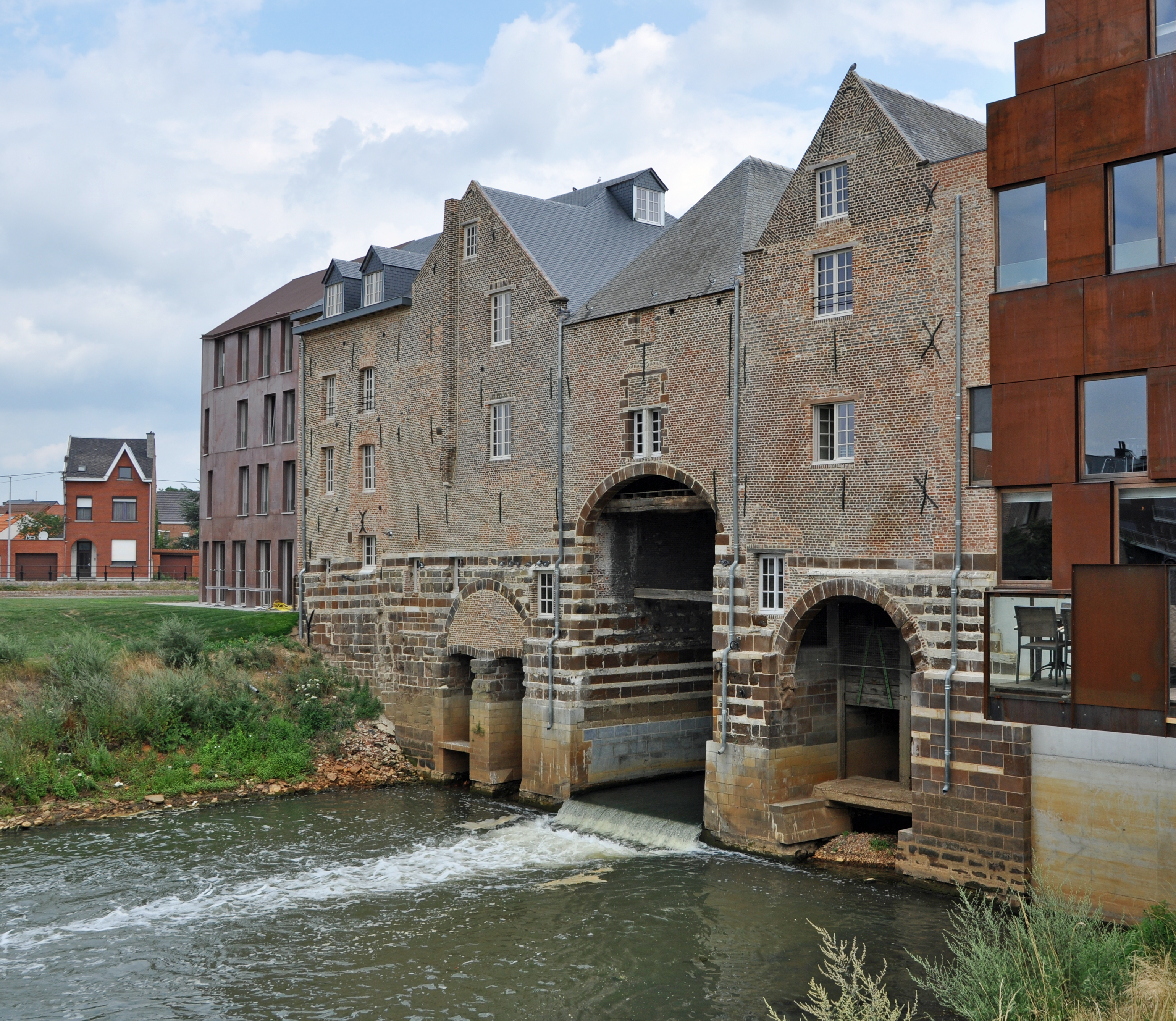 Aarschot (Belgium): the Hertogen watermills